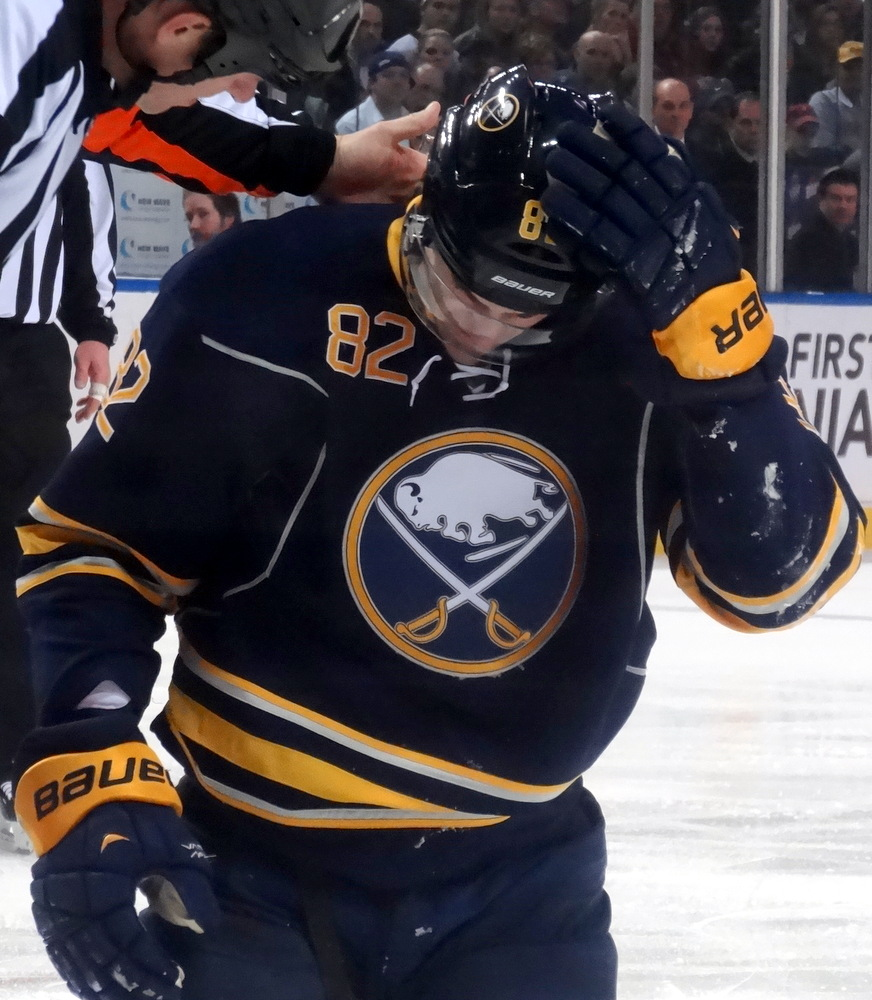 Buffalo Sabres forward Marcus Foligna skates against the Pittsburgh Penguins, February 17, 2013 at First Niagara Center in Buffalo, NY.